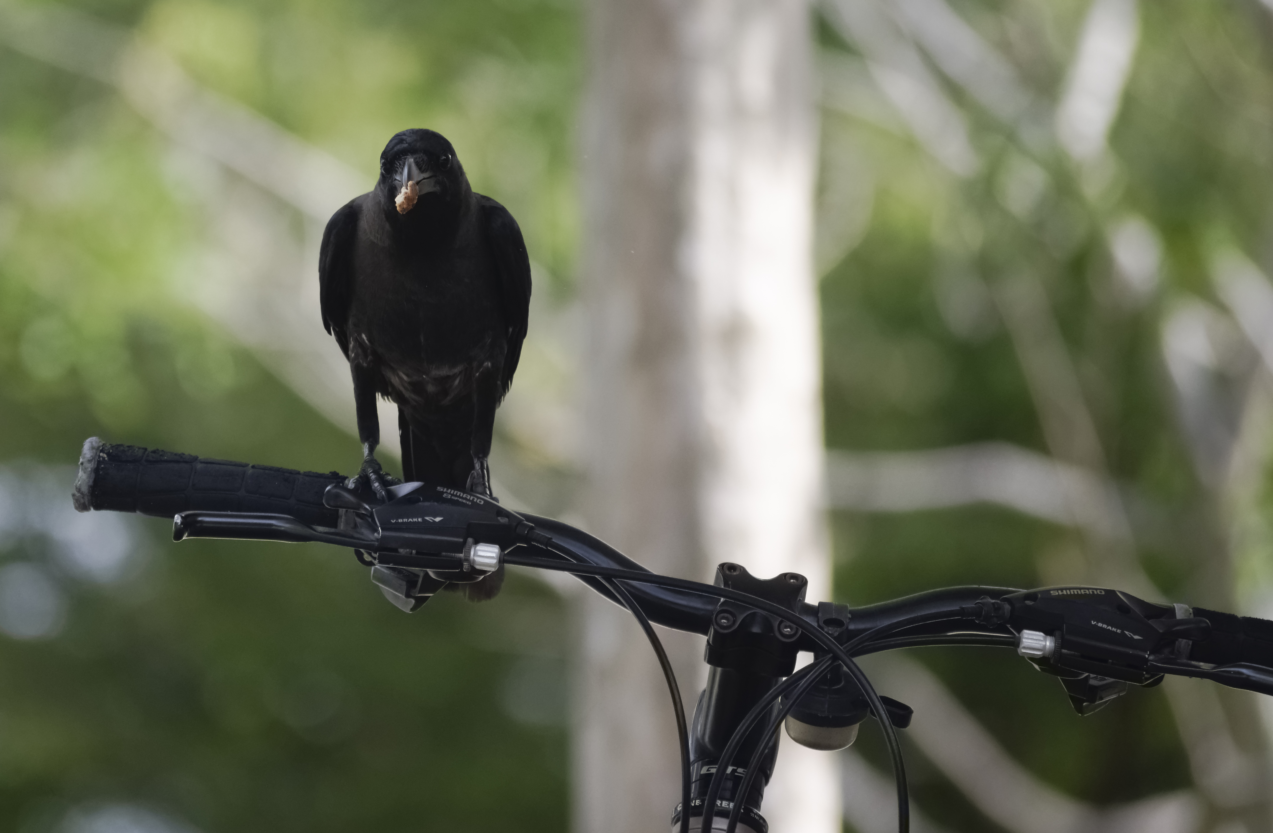 A beautiful female House Crow (Corvus splendens insolens) perched on top of my 1994 GT bike.